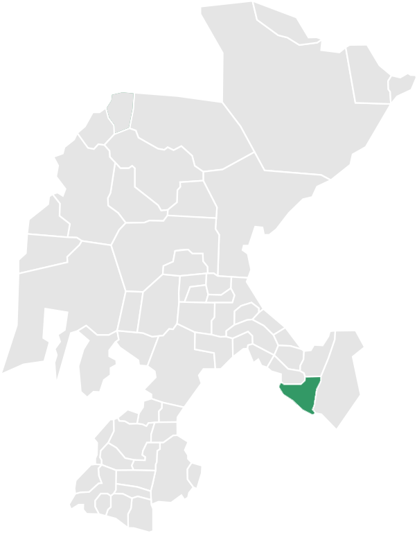 Map of the Municipality of Villa García in Zacatecas, México.